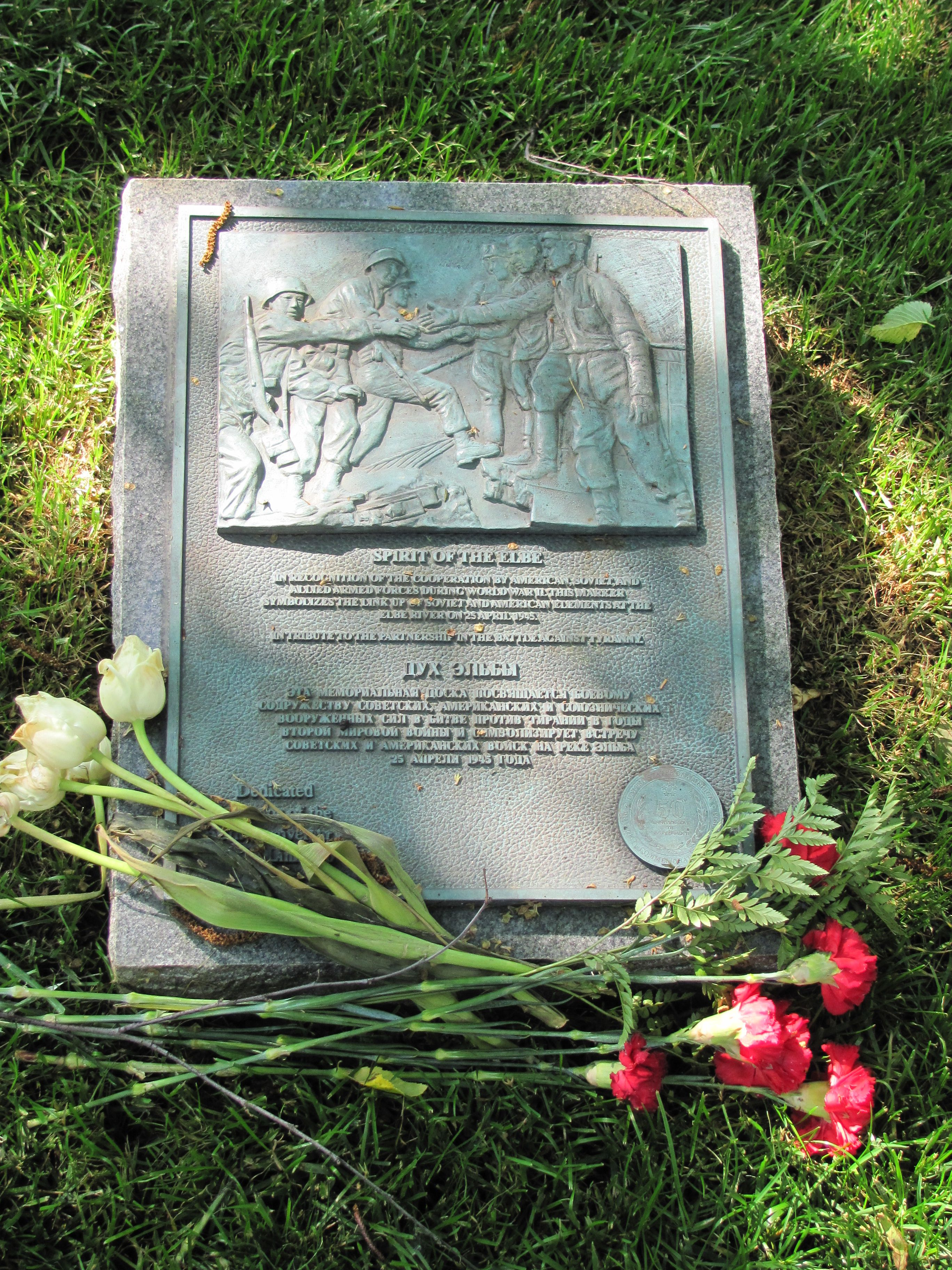 Elbe Day memorial plaque at Arlington National Cemetery, Arlington, Virginia, USA.